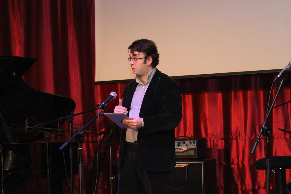 Emin Milli reading publicly his short story "One Day in Jail".